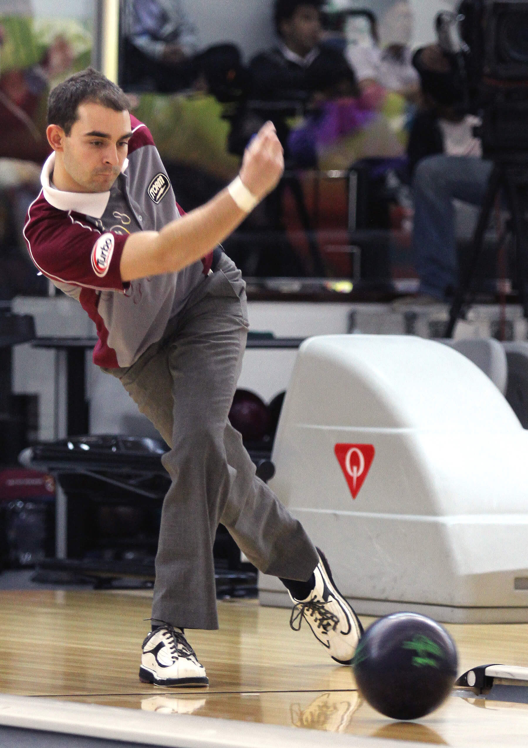 From source on Flickr: "Doha Stadium Plus Qatar Dominic Barrett Dominic Barrett competes in the Qatar International Open bowling championship. Pic by Vinod Divakaran